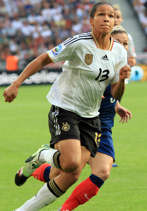 Celia Okoyino Da Mbabi playing for Germany in the 2011 FIFA Women's World Cup